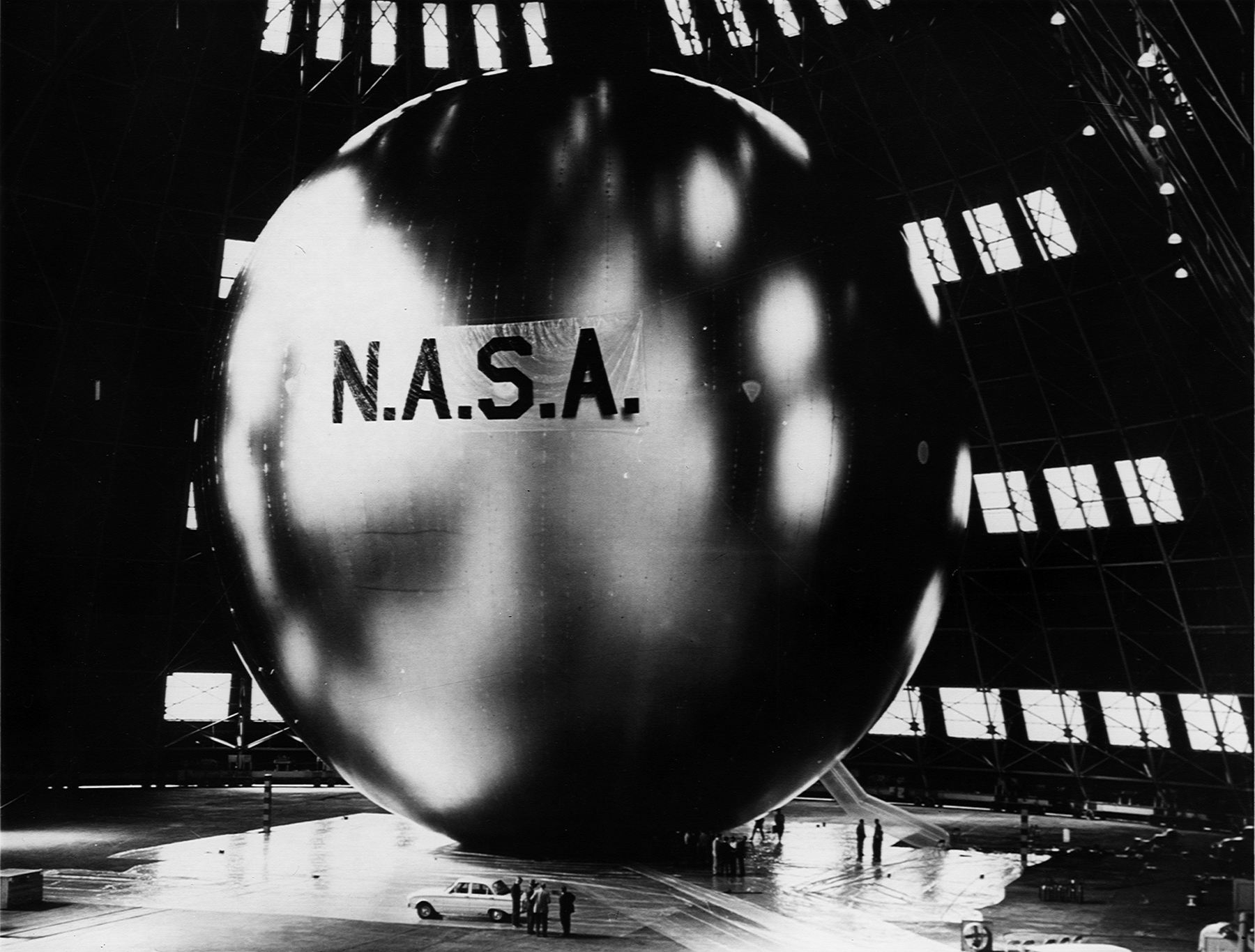 Echo, NASA's first communications satellite, was a passive spacecraft based on a balloon design created by an engineer at NASA's Langley Research Center. Made of Mylar, the satellite measured 100 feet (30 meters) in diameter. Once in orbit, residual air inside the balloon expanded, and the balloon began its task of reflecting radio transmissions from one ground station back to another. Echo 1 satellites, like this one, generated a lot of interest because they could be seen with the naked eye from the ground as they passed overhead.